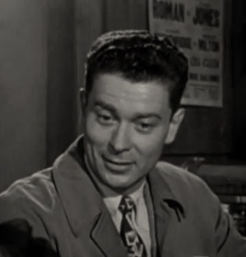 Arthur Franz in The Sniper - trailer (cropped screenshot)